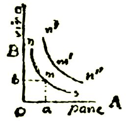 Fig. 5 (pag. 165) of Manuale di economia politica con una introduzione alla scienza sociale, by Vilfredo Pareto